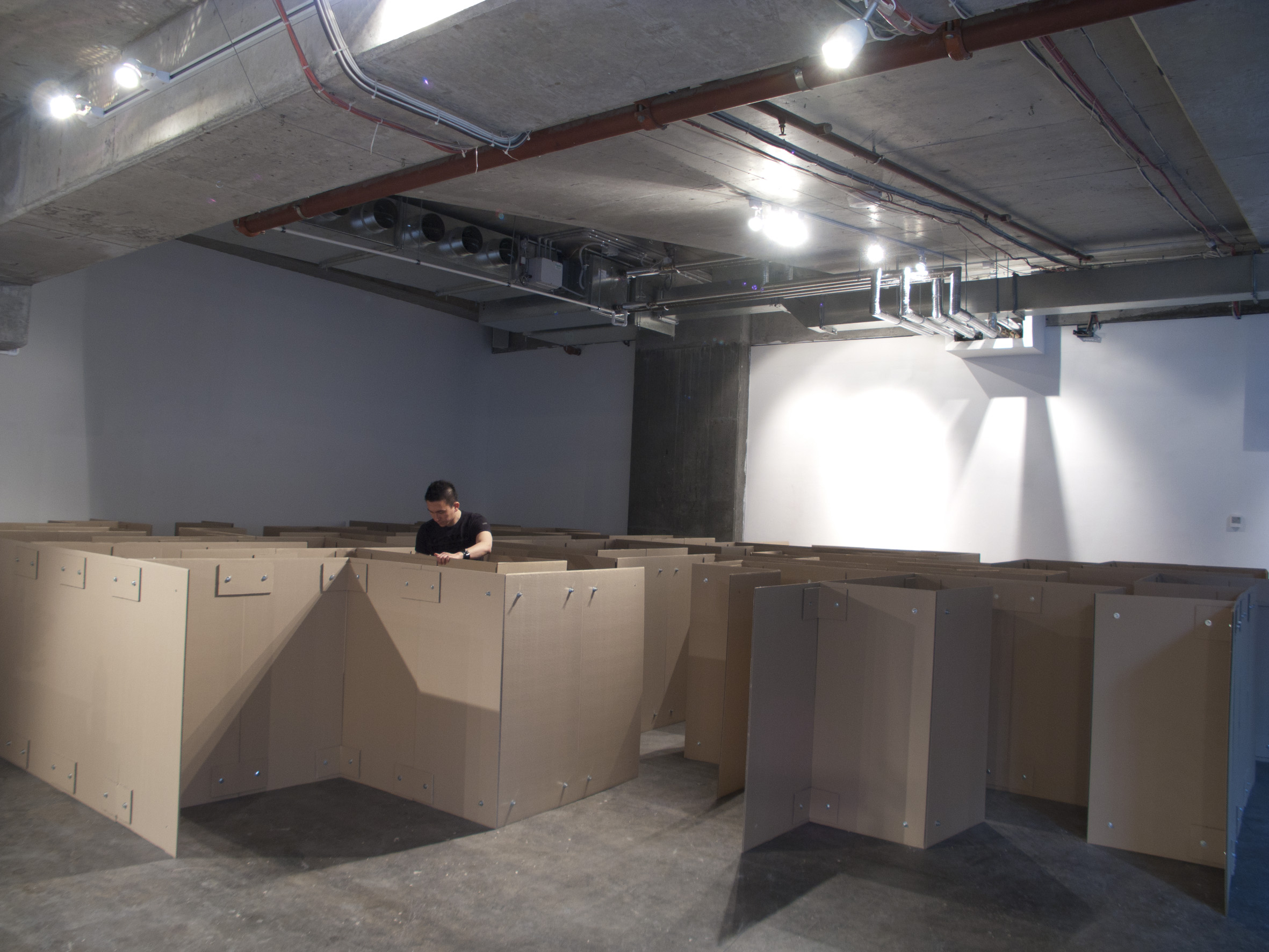 Set-up images from 'The Inversion Theory' exhibition